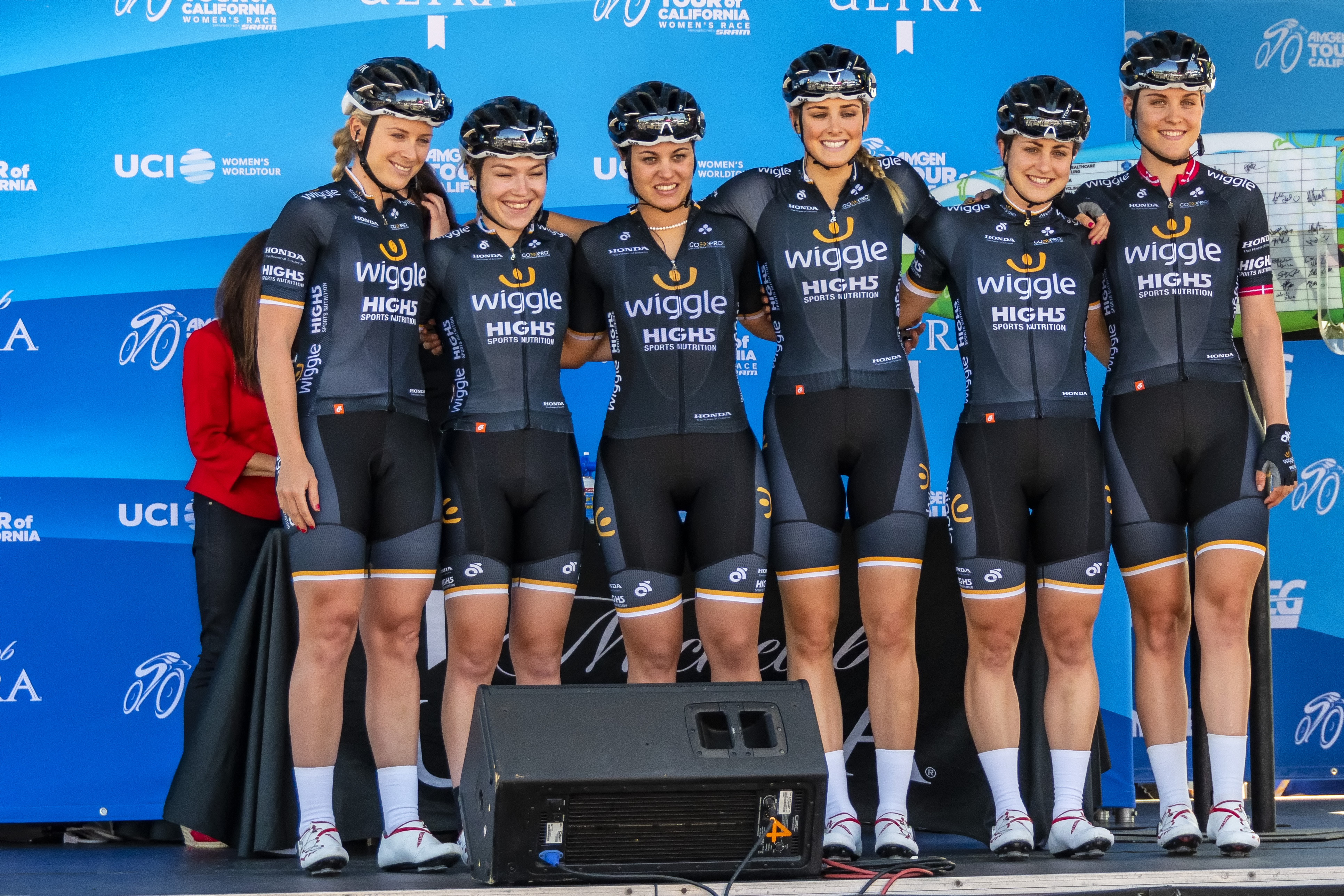 Amgen Women's Tour of California 2018